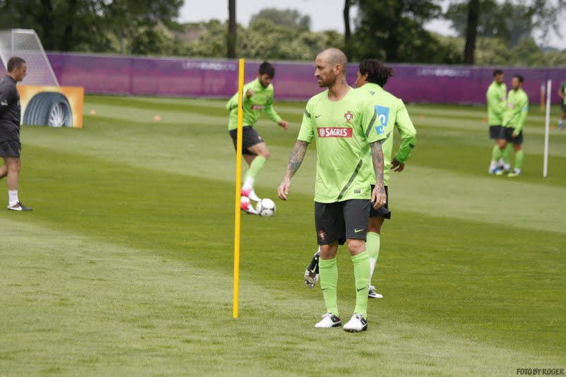 Raul Meireles in training before EURO 2012 in Opalenica.